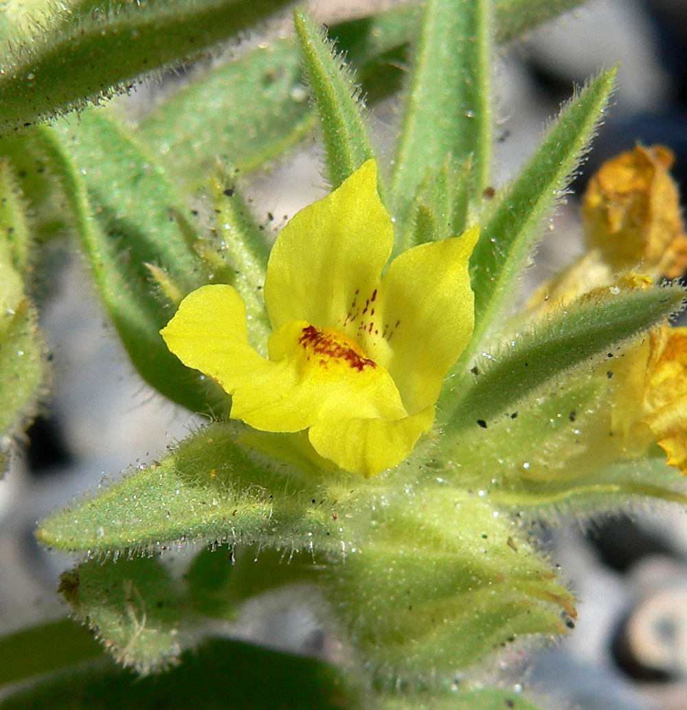 Mohavea breviflora in Furnace Creek Wash, Death Valley, California